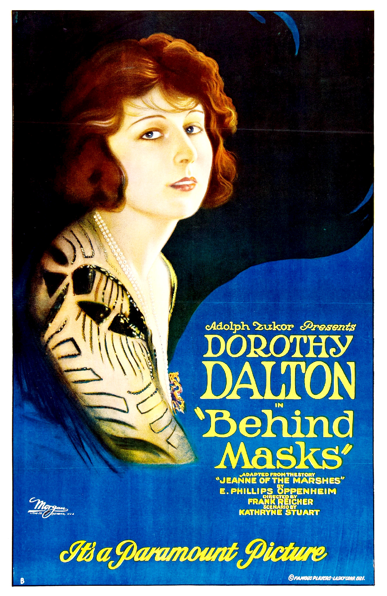 Poster for the American film Behind Masks (1921) with Dorothy Dalton.